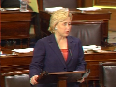 "Real recovery for the Gulf Coast starts with recovery for our small businesses," Sen. Landrieu said as she introduced the Gulf Coast Open for Business Act (03/30/06)